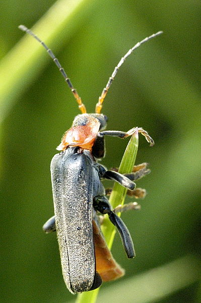 Picture taken in Commanster, Belgian High Ardennes . Species: Cantharis fusca